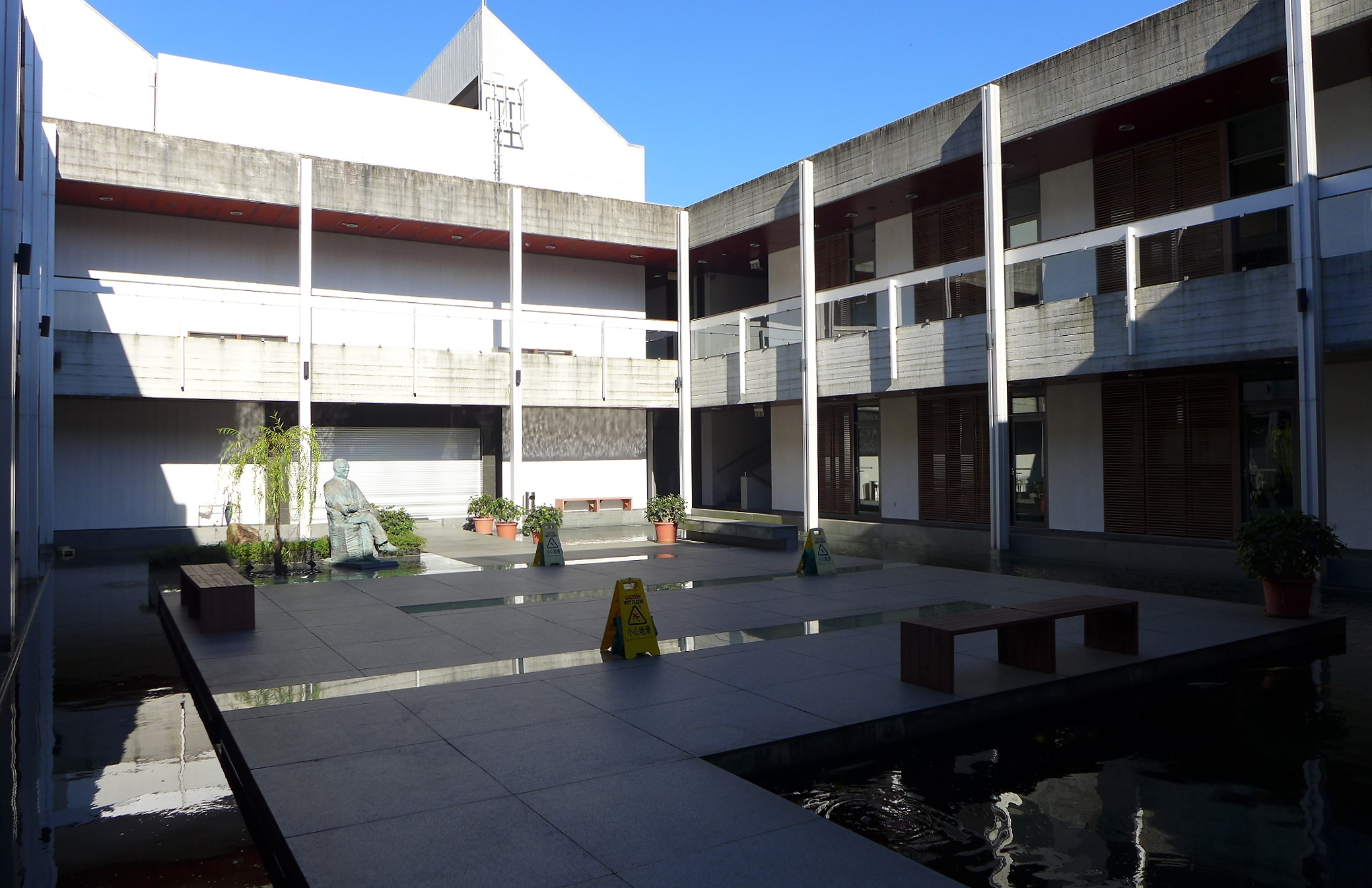 Institute of Chinese Studies Courtyard